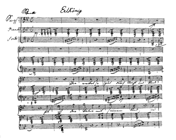 This is an image of a manuscript page from Franz Schubert's Lied Der Erlkönig.